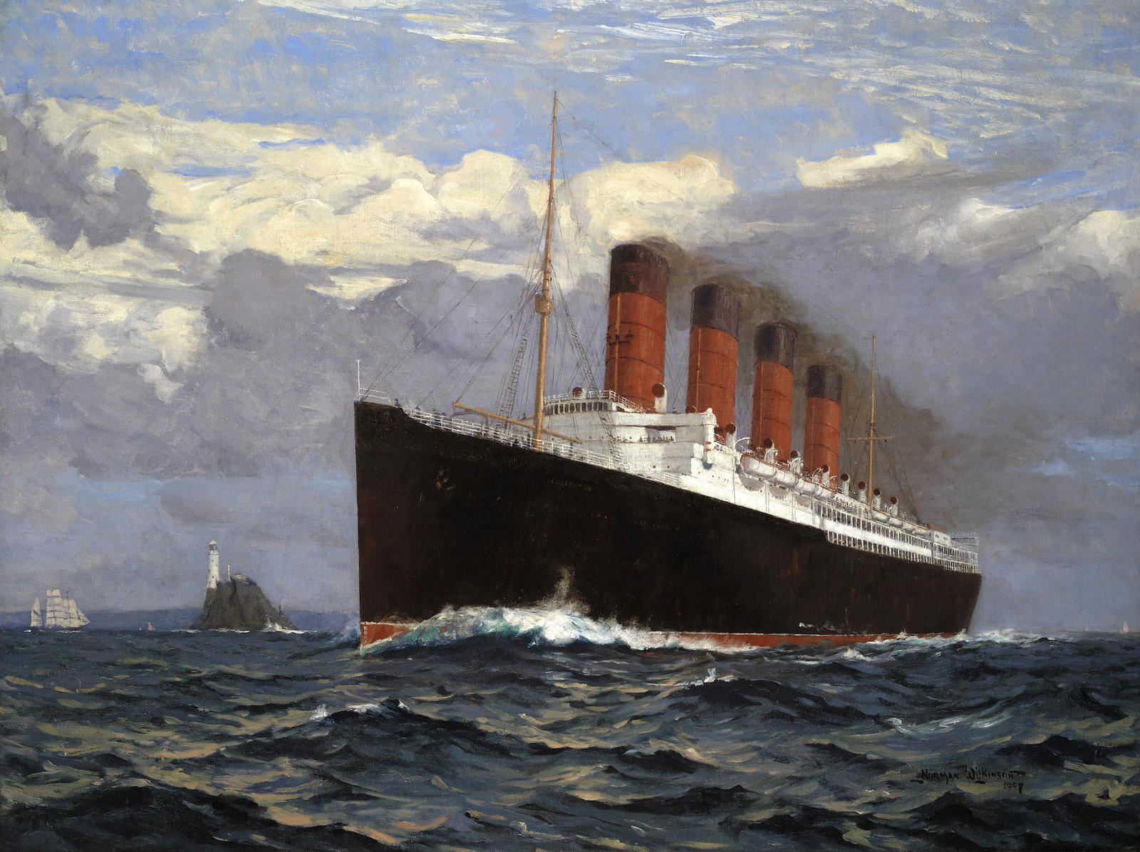 The Cunard liner Lusitania speeding past the Fastnet lighthouse, probably outward bound for New York on her maiden voyage